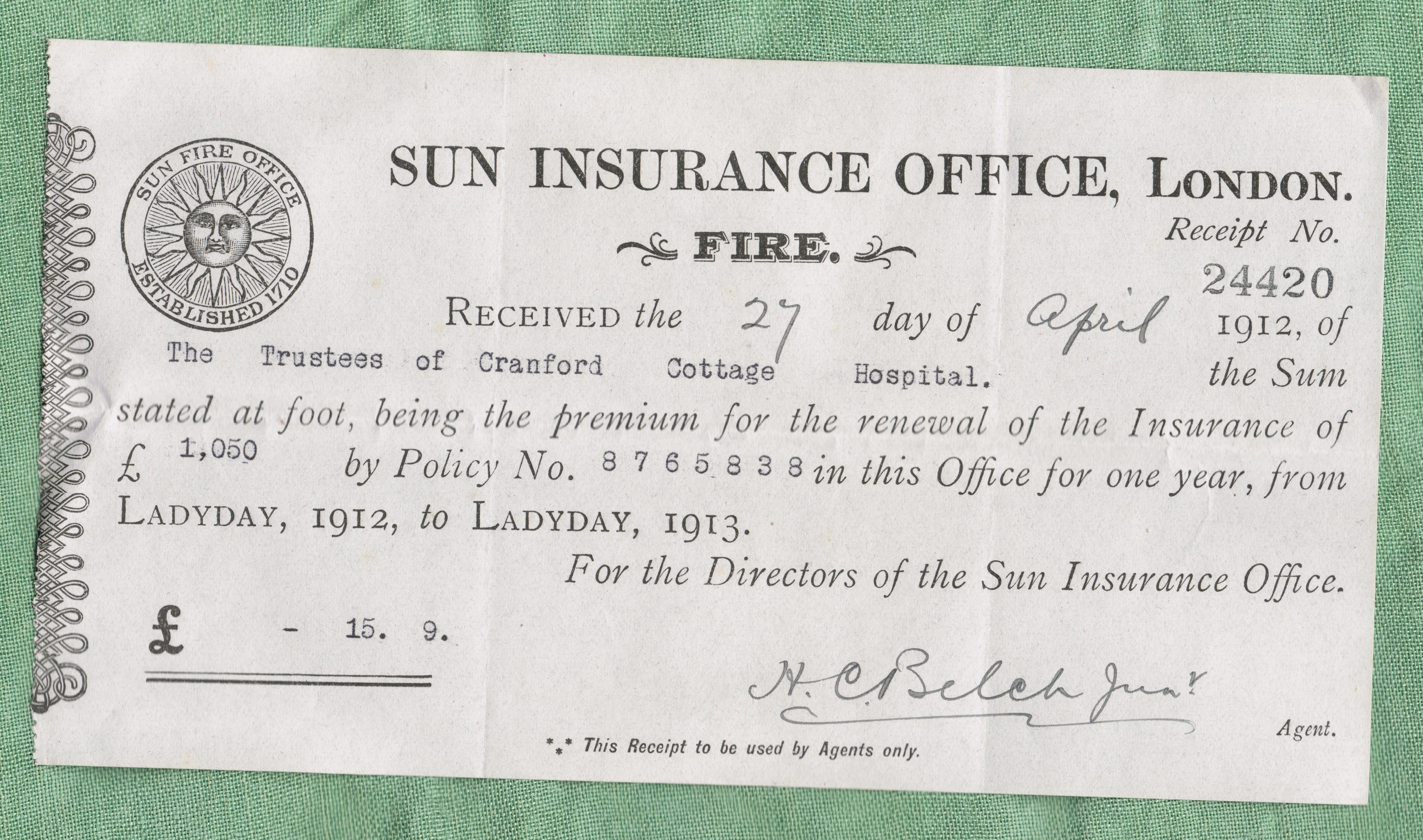 Scan (by me, R. de Salis, Rodolph (talk) 01:47, 13 December 2014 (UTC)) of a Fire insurance receipt, 1912-1913, from the Sun Insurance Office, London for the Harlington, Harmondsworth and Cranford Cottage Hospital. Text reads: SUN INSURANCE OFFICE, London FIRE. Recipt No. 24420 Received the 27 day of april 1912 of The trustees of Cranford Cottage the sum stated at foot, being the Premium for the renewal of the Insurance of £ 1,050 by policy No. 8 7 6 5 8 3 8 in this Office for one year, from 1912, to . For the Directors of the SUn Insurance Office.